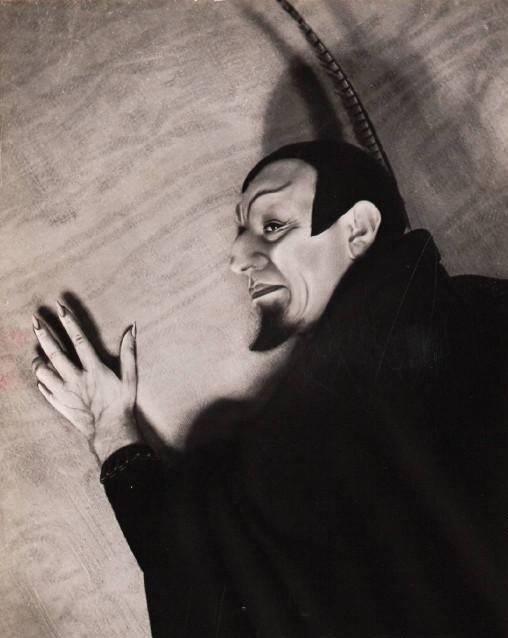 Bulgarian opera singer Raffaele Arié (1920-1988) as Mephistoles in Gounod's Faust.